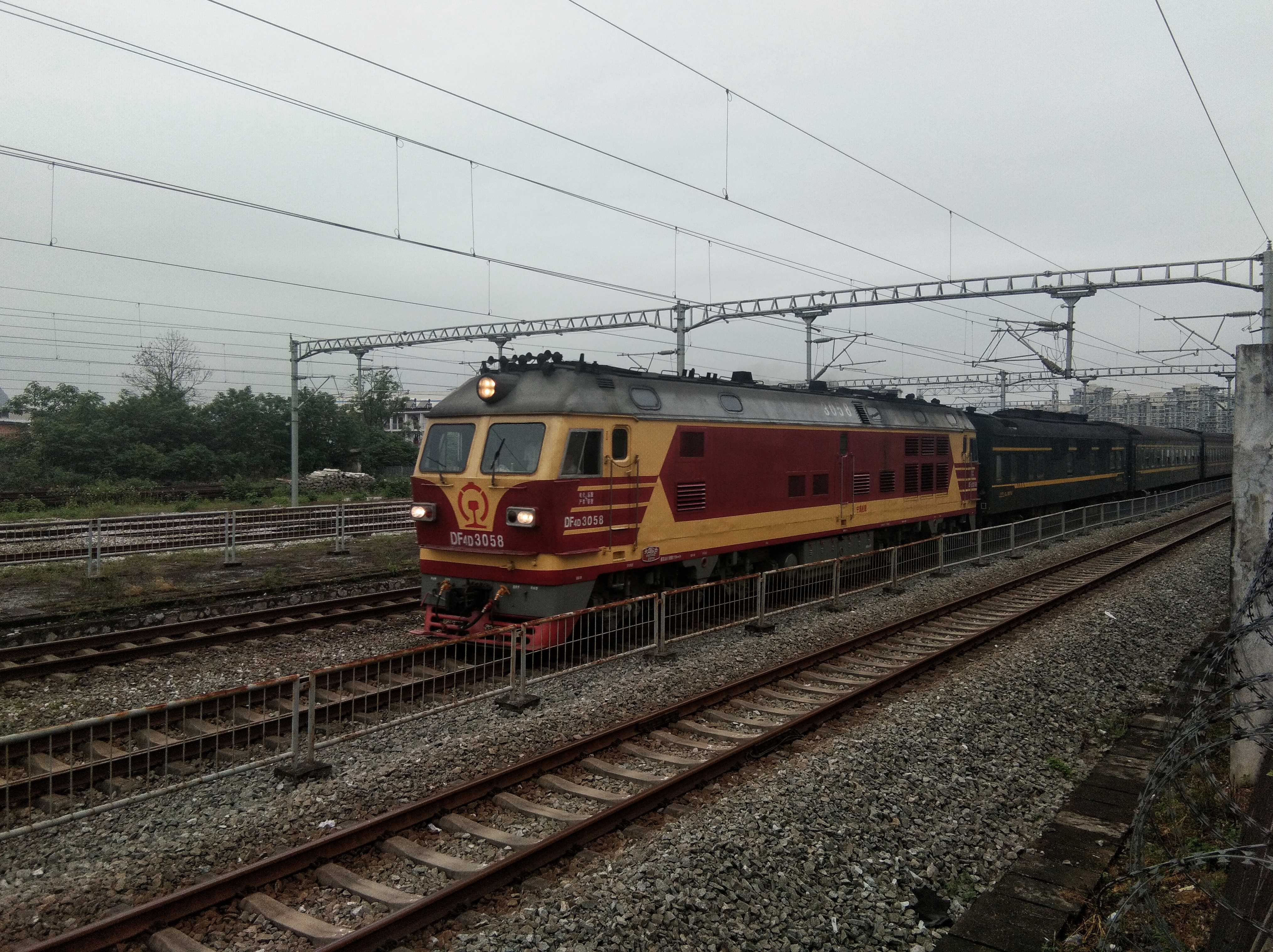 DF4D 3058 hauled K1191 Fast Train in Diecai District, Guilin, China.